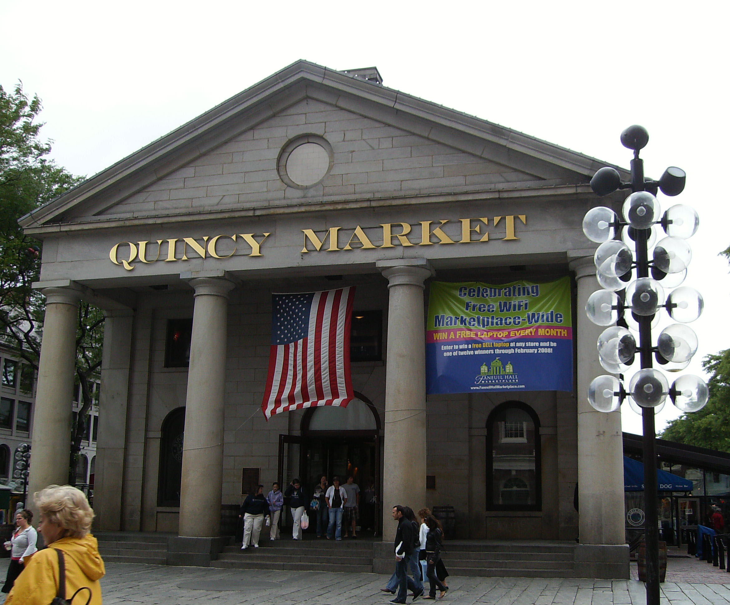 Photo of West facing entrance to Quincy Market in Boston in 2007